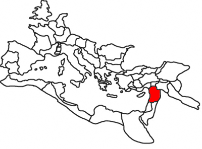 Description: Roman Empire, Syria province highlited Source: From the blank template